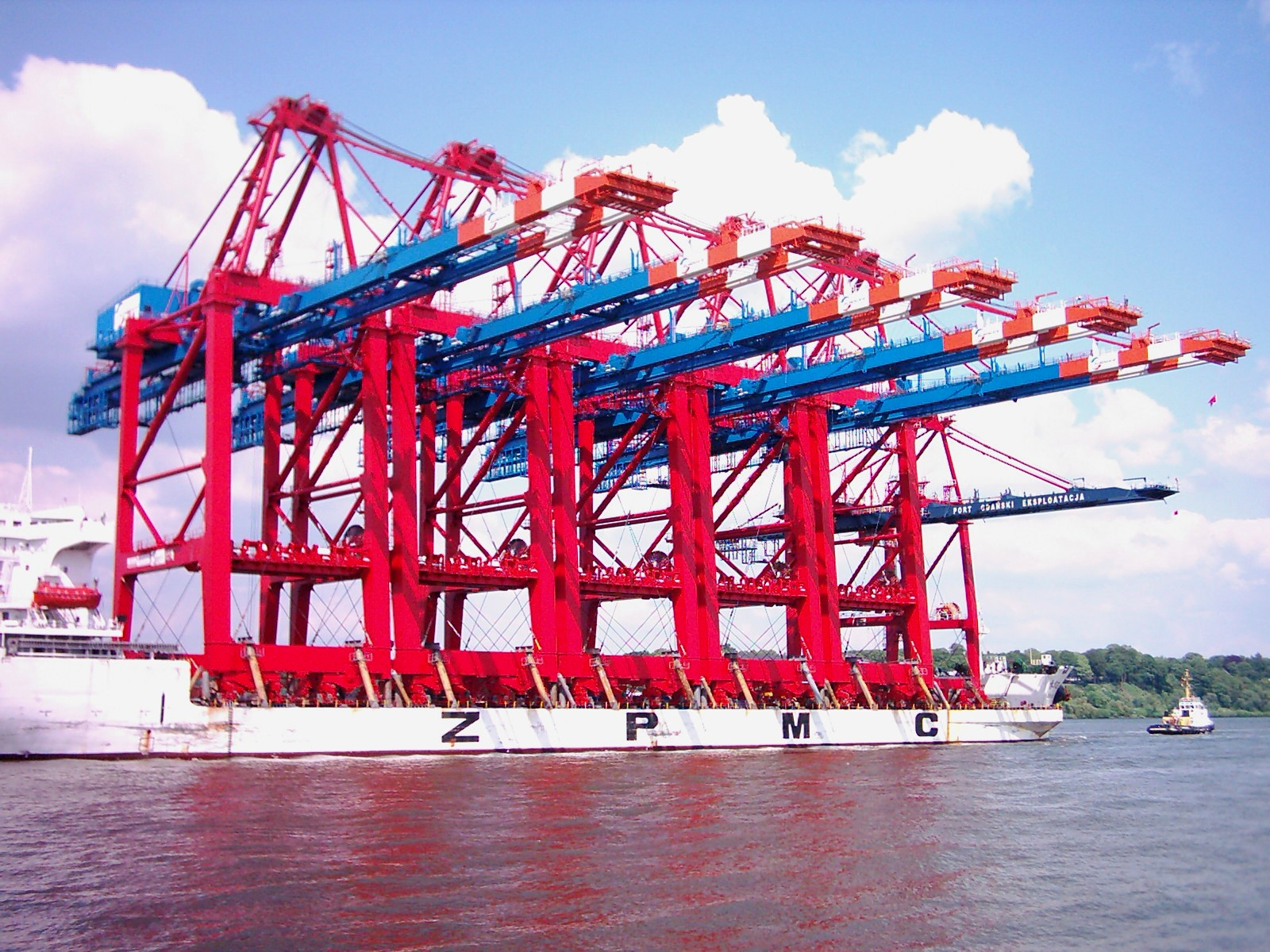 Transport of five gantry cranes for Eurogate Container-Terminal in Hamburg. Elbe, Finkenwerder, Germany. Information about Zhen Hua 20 may be found at IMO 7826180.A ship can change name and flag state through time, but the IMO number remains the same through the hull's entire lifetime. As a result, it can be useful to identify a ship by using the IMO number.